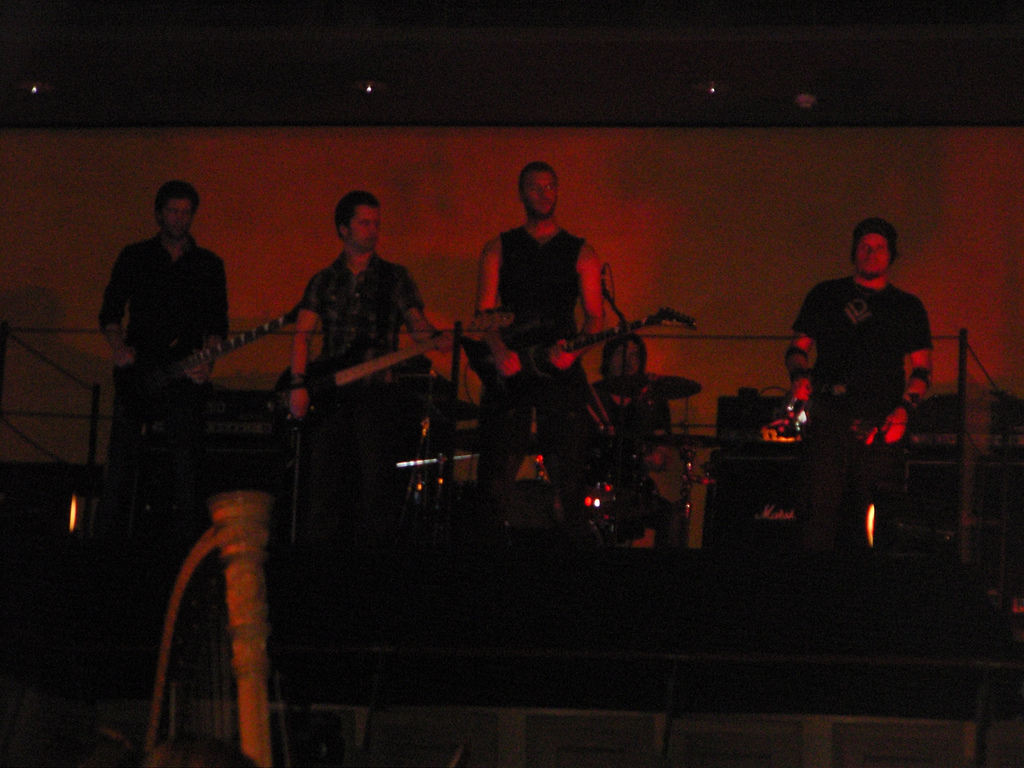 Machinae Supremacy performing at Play! A Video Game Symphony in Stockholm